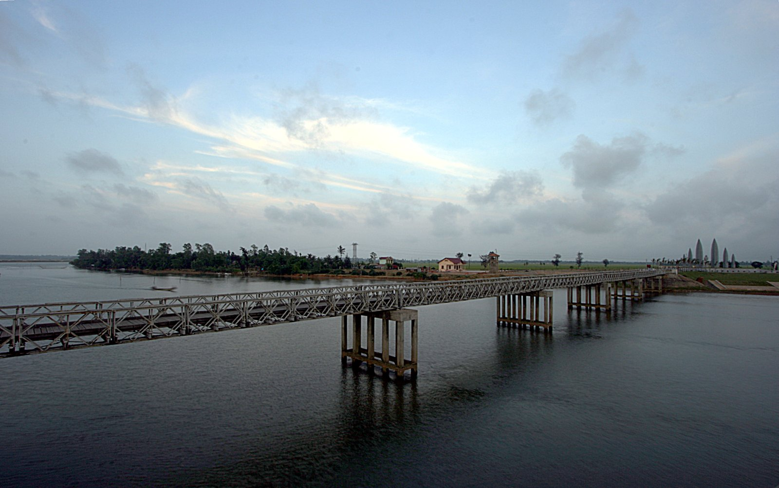 Photograph of the Ben Hai River in Vietnam with the Hien Luong Bridge in the foreground.